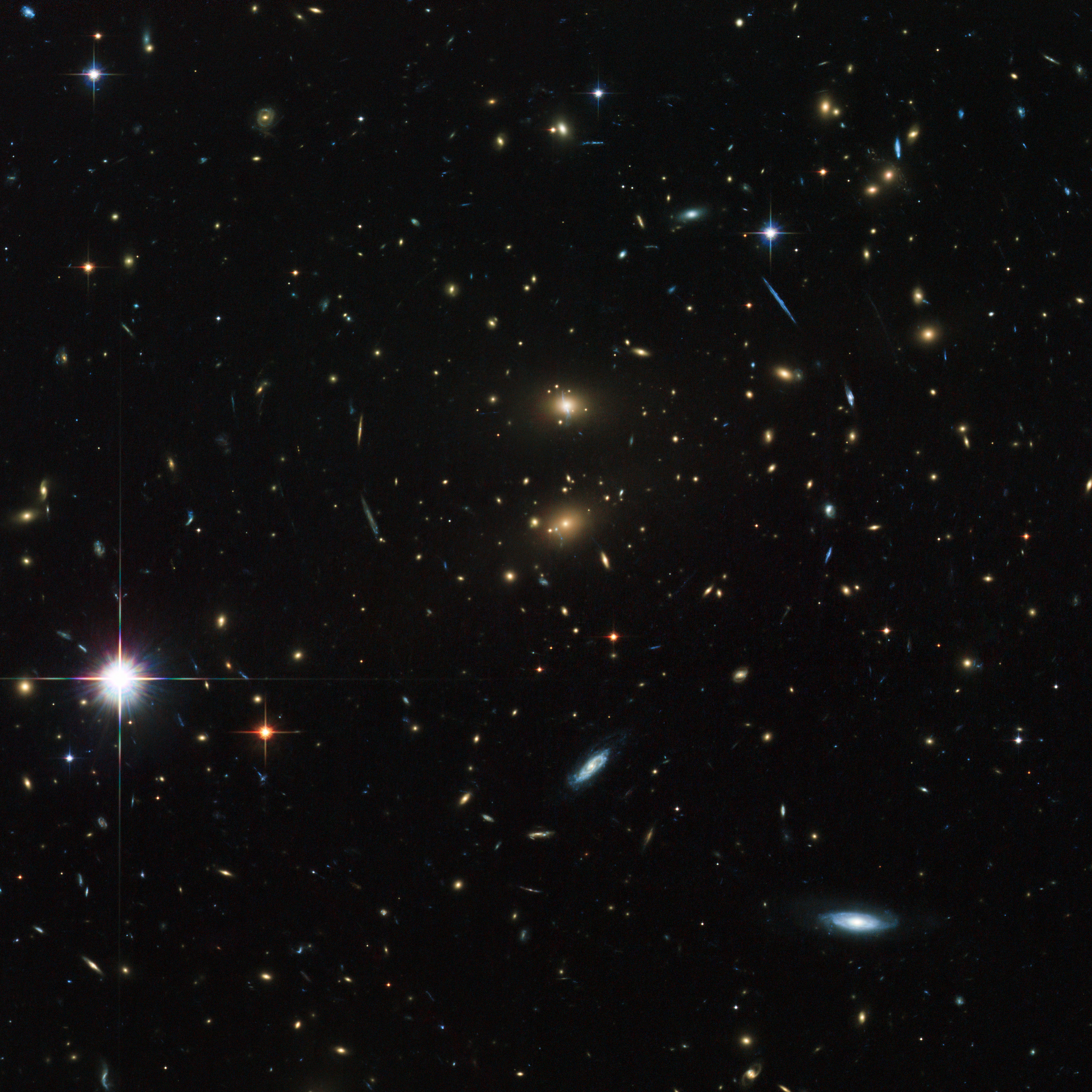 The NASA/ESA Hubble Space Telescope usually works as a solo artist to capture awe-inspiring images of the distant Universe. For this picture, though, Hubble had a helping hand from the subject of the image, a galaxy cluster called LCDCS-0829, as the huge mass of the galaxies in the cluster acted like a giant magnifying glass. This strange effect is called gravitational lensing. The object was discovered during the Las Campanas Distant Clusters Survey, which explains the cluster's unusual name. This survey was carried out in March 1995 using a 1-metre telescope at the Las Campanas Observatory in Chile. More than one thousand clusters of galaxies, most of them previously unknown, were found in a dedicated survey of a long, but narrow, section of the southern sky. The bizarre phenomenon of gravitational lensing is a consequence of Albert Einstein’s general theory of relativity, which says that the huge mass of the galaxy cluster bends the fabric of the Universe, and the light from one of the distant galaxies will then travel along this bend in the fabric. In addition to making some objects appear bigger and brighter, gravitational lensing can produce multiple images of distant galaxies and stretch them into strange arcs. Many such arcs can be seen in this image. This deep image of the cluster was created from a total of 36 exposures taken using the Wide Field Channel of Hubble’s Advanced Camera for Surveys. Images through a blue filter (F475W) were coloured blue, images through a near-infrared filter (F814W) were coloured green and images through a filter that passes infrared light of even longer wavelengths (F850LP) were coloured red. The total exposure times were 5280 s per filter and the field of view is about 2.8 arcminutes across.